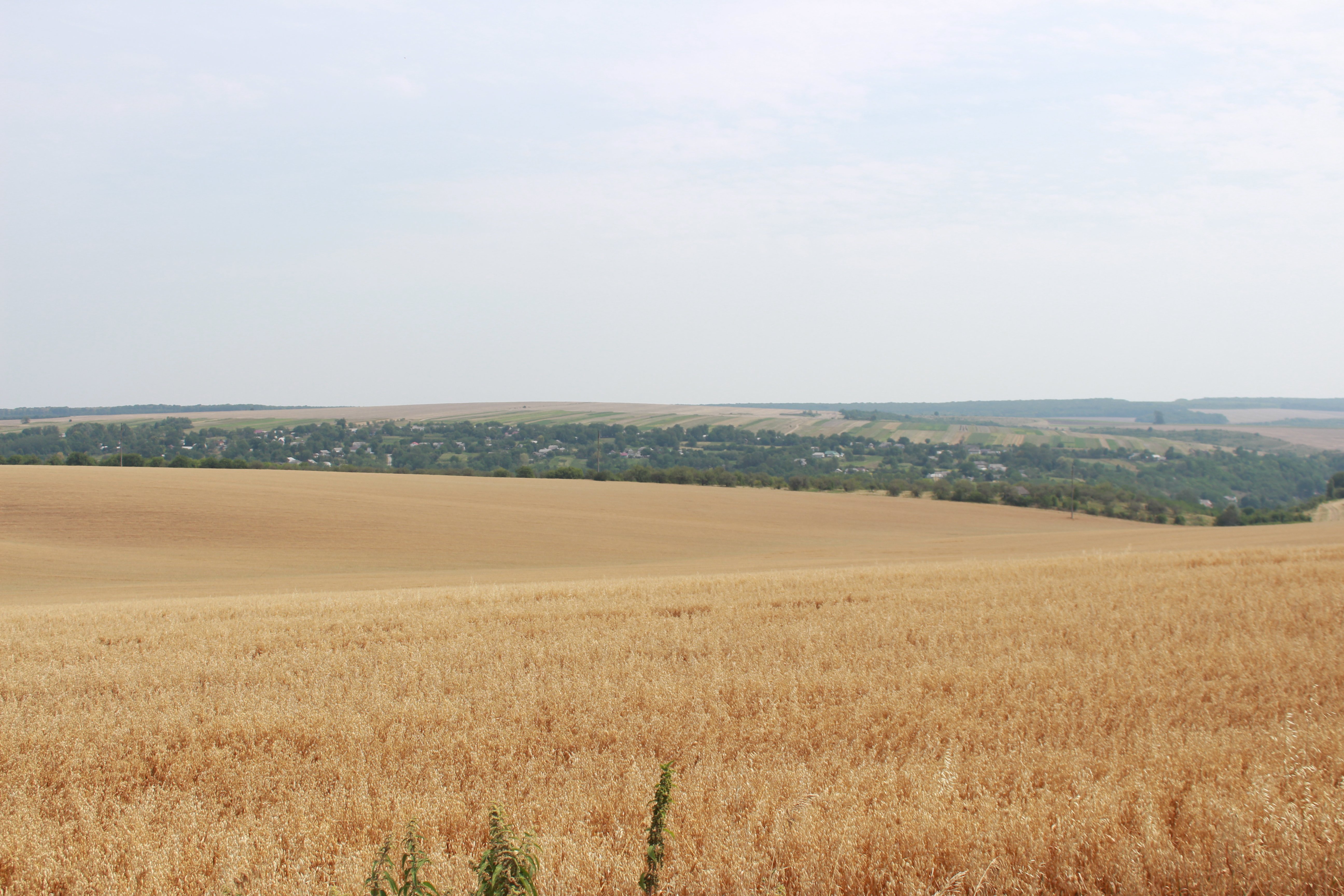 View at the village